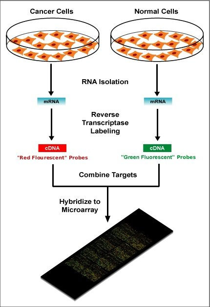 Cartoon schematic of a typical microarray experiment